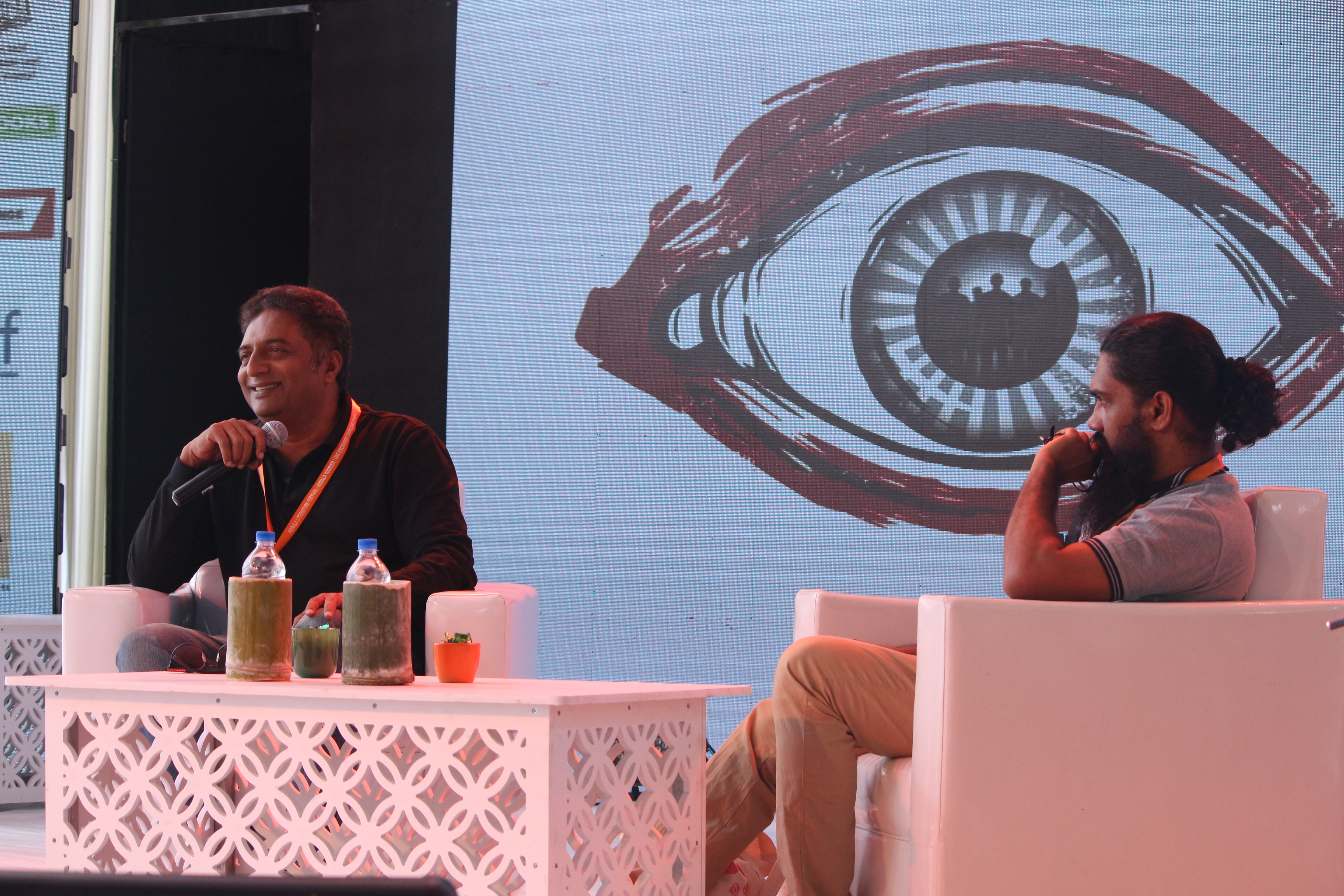 Prakash Raj at Kerala Literature Festival 2018 Kozhikode